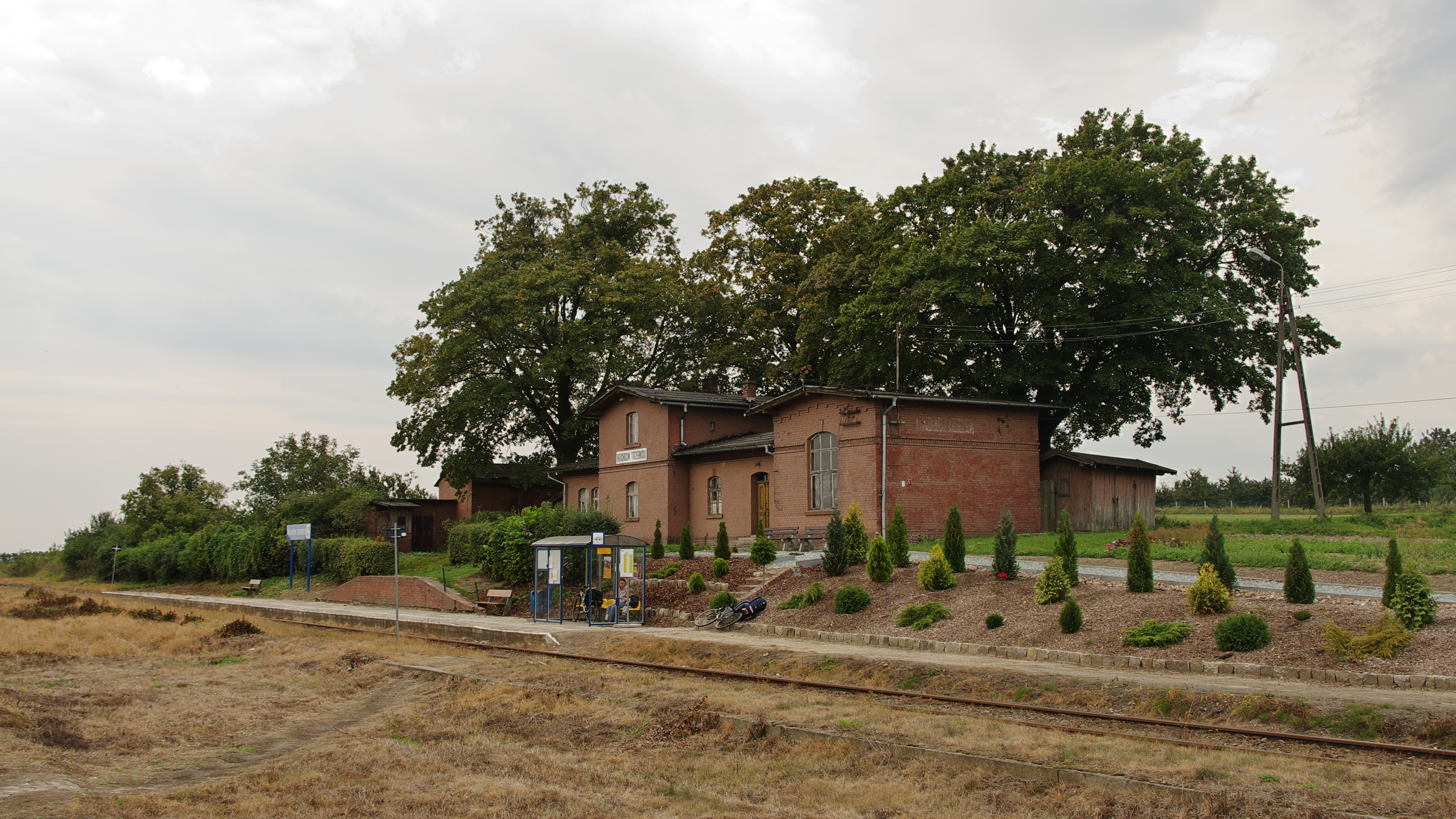 Railway Station in Brochocin Trzebnicki